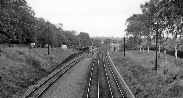 Site of Brinklow Station. View SE, towards Rugby and London; ex-London & North Western London - Crewe etc. West Coast Main Line. To speed up the expresses, this station was closed to passengers on 16/9/57, to goods on 20/2/61. Nowadays it is all electrified.